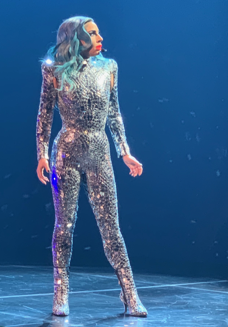 Lady Gaga on stage in a sequined bodysuit looking away from the camera.